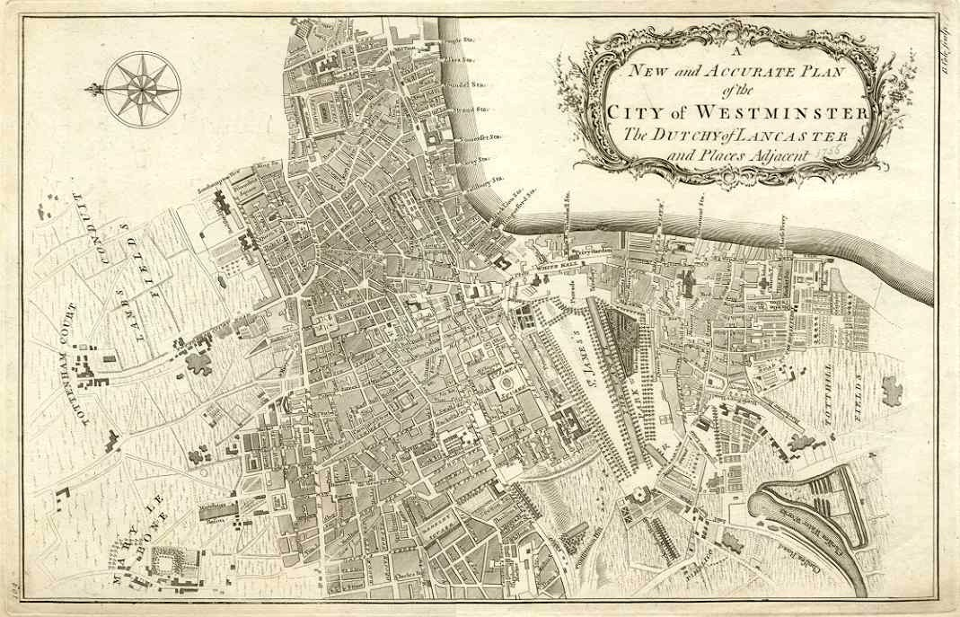 "A New and Accurate Plan of the City of Westminster the Dutchy of Lancaster and Places Adjacent" by Benjamin Cole and published in 1755. The map is orientated with North to the left, and extends from Tottenham Court in the North to Chelsea water works in the South, and includes Berkley Square in the West and Lincolns Inn Fields in the East. Copper engraved map. A bibliographical account of the principal works relating to English topography (1818) affirms the publication of this map.